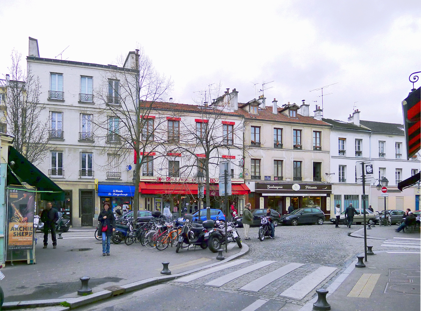 Cinq diamants et Butte-aux-Cailles streets - Paris